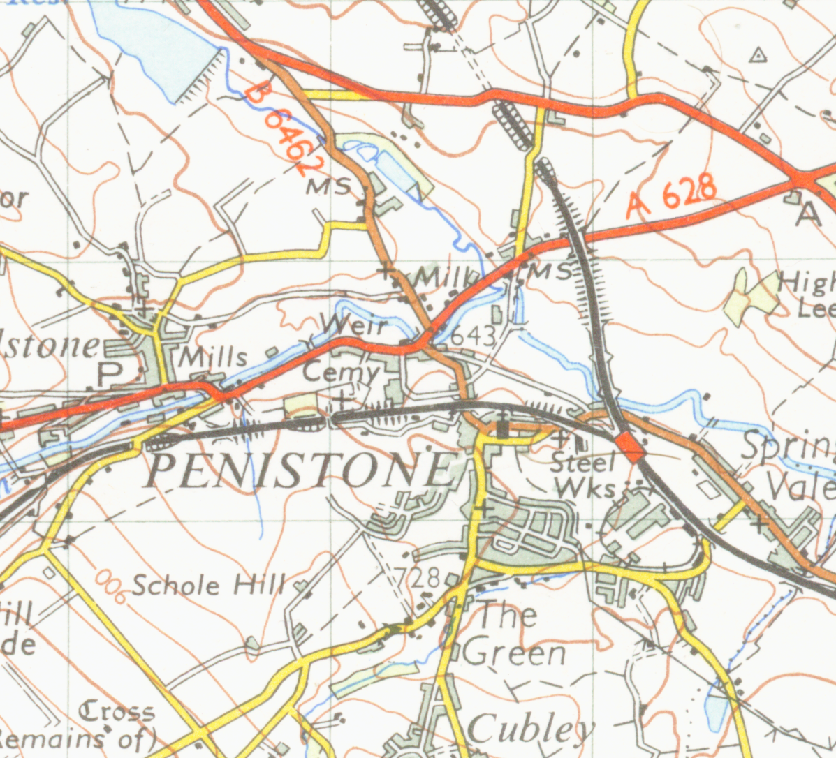 Map of penistone from 1954. Scale 1 inch to the mile 600DPI Sheet 102 "Huddersfield" series 7